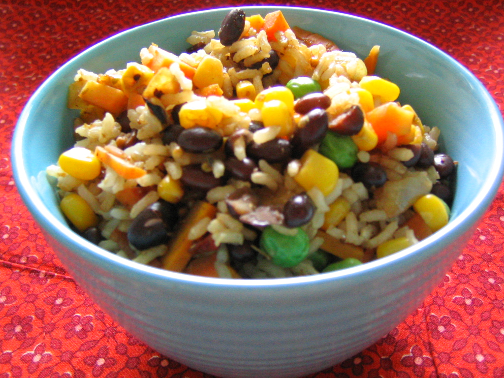 Rice and beans